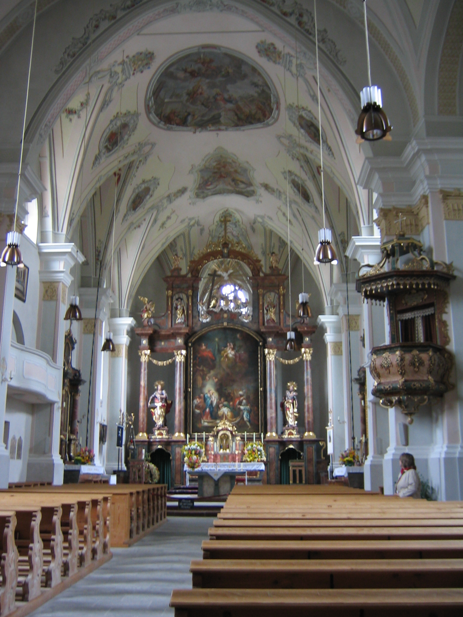 Church of Rauris, Salzburger Land